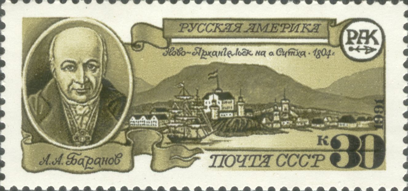 Stamp of the Soviet Union, the first governor of Russian Alaska Alexander Andreyevich Baranov, 1991, CPA #6303.